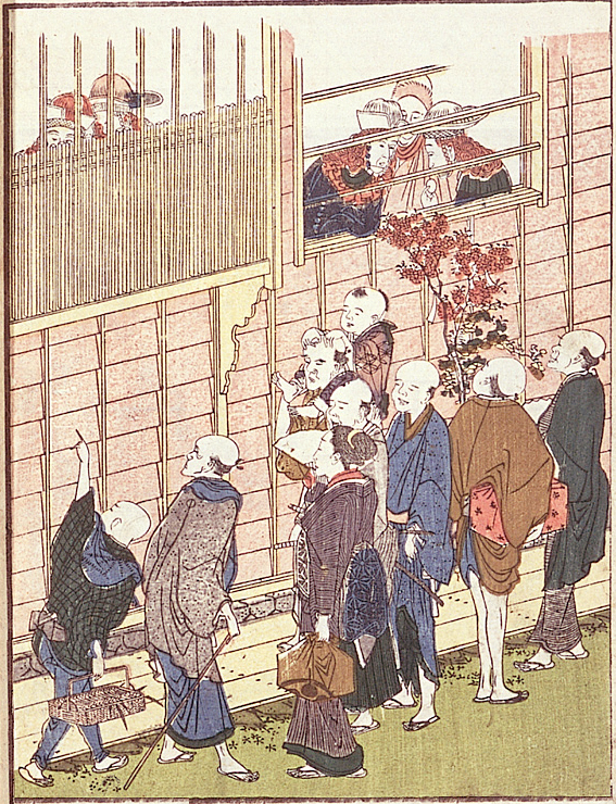 Wood block print: Nihonbashi hongokucho Nagasakiya (lodge of the Dutch in Edo). private collection